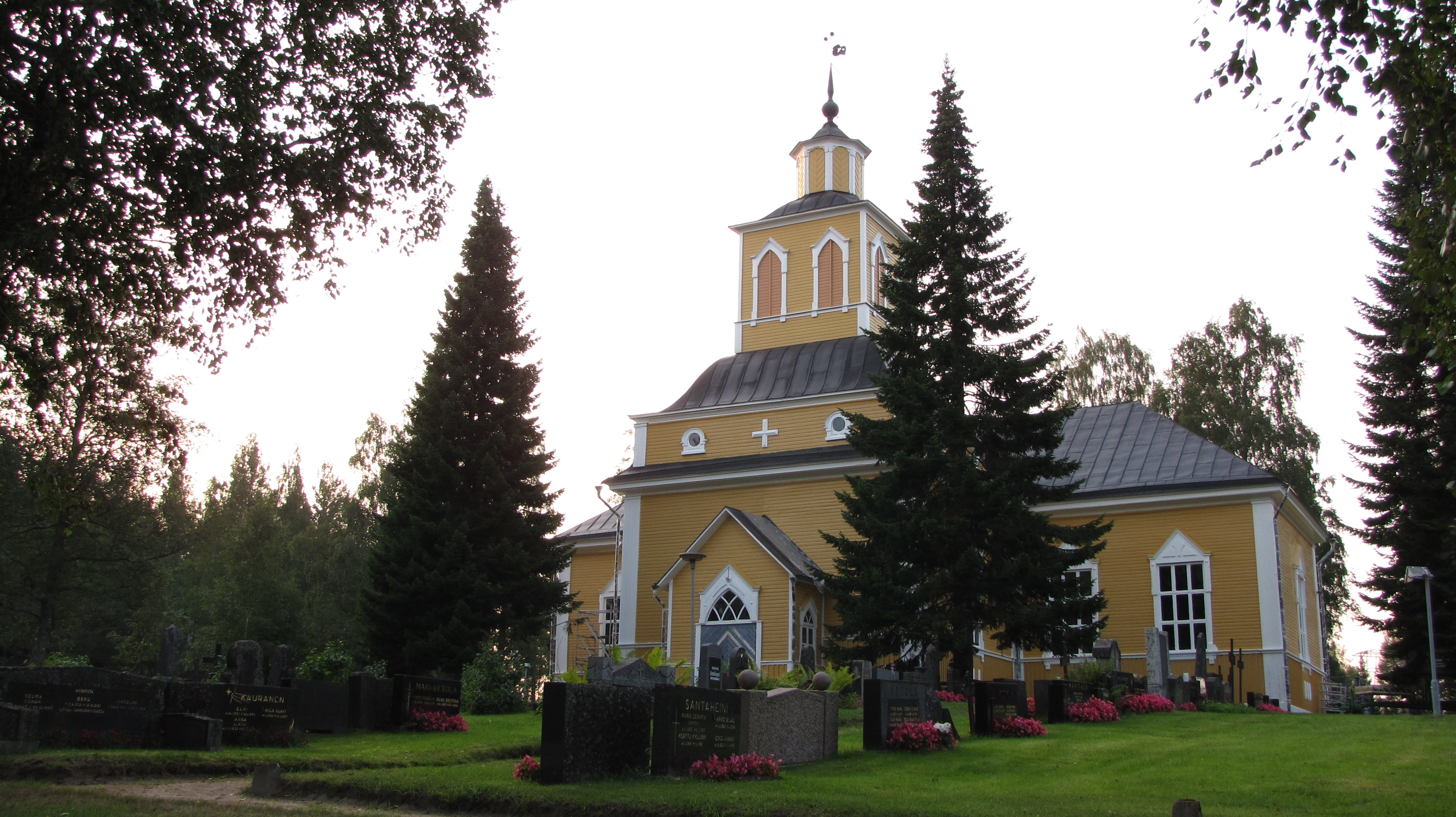 Karijoki church in Karijoki, Finland.